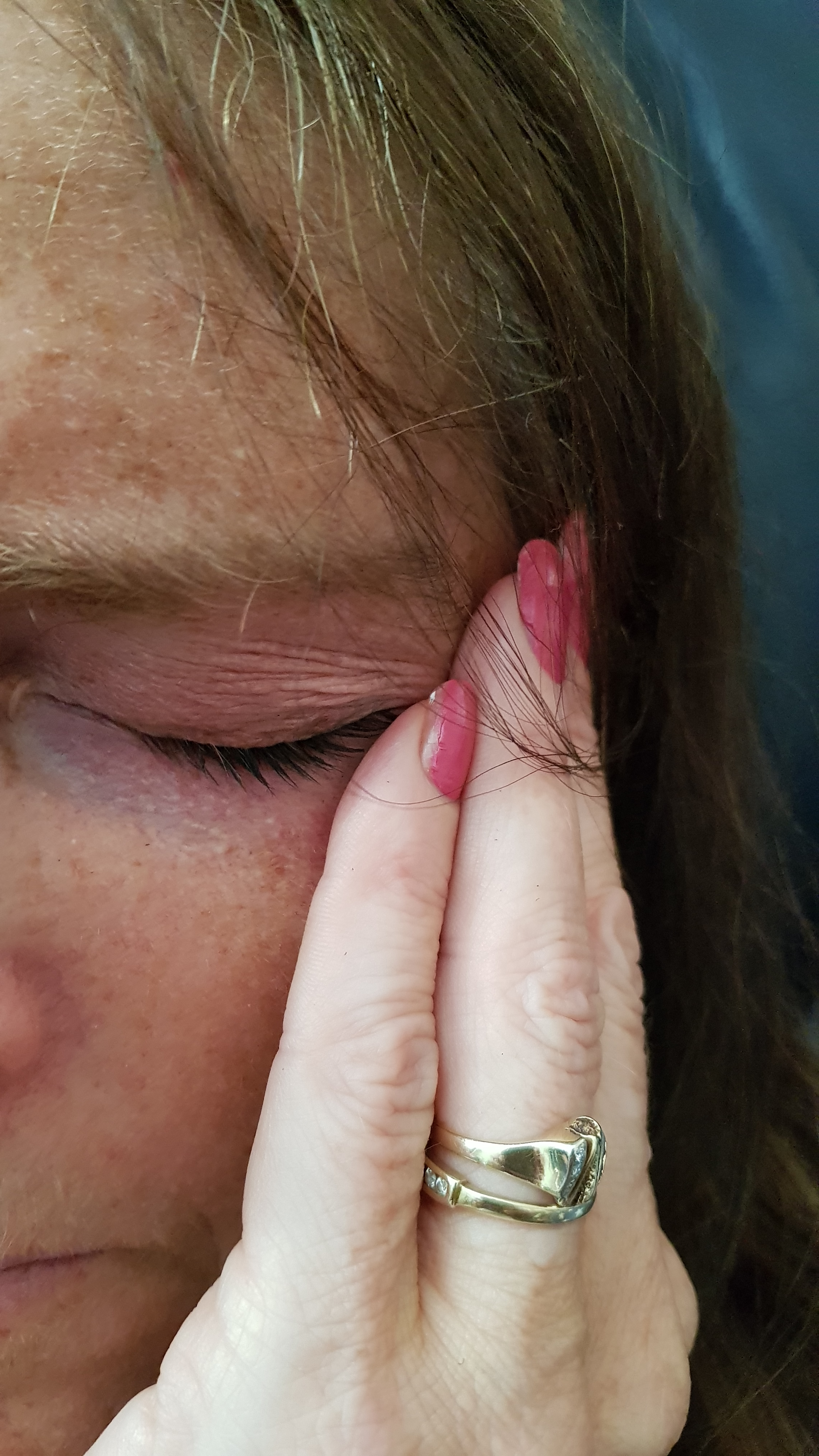 Introductory phase to cluster headache (HC), female. Attack started less than five minutes ago.